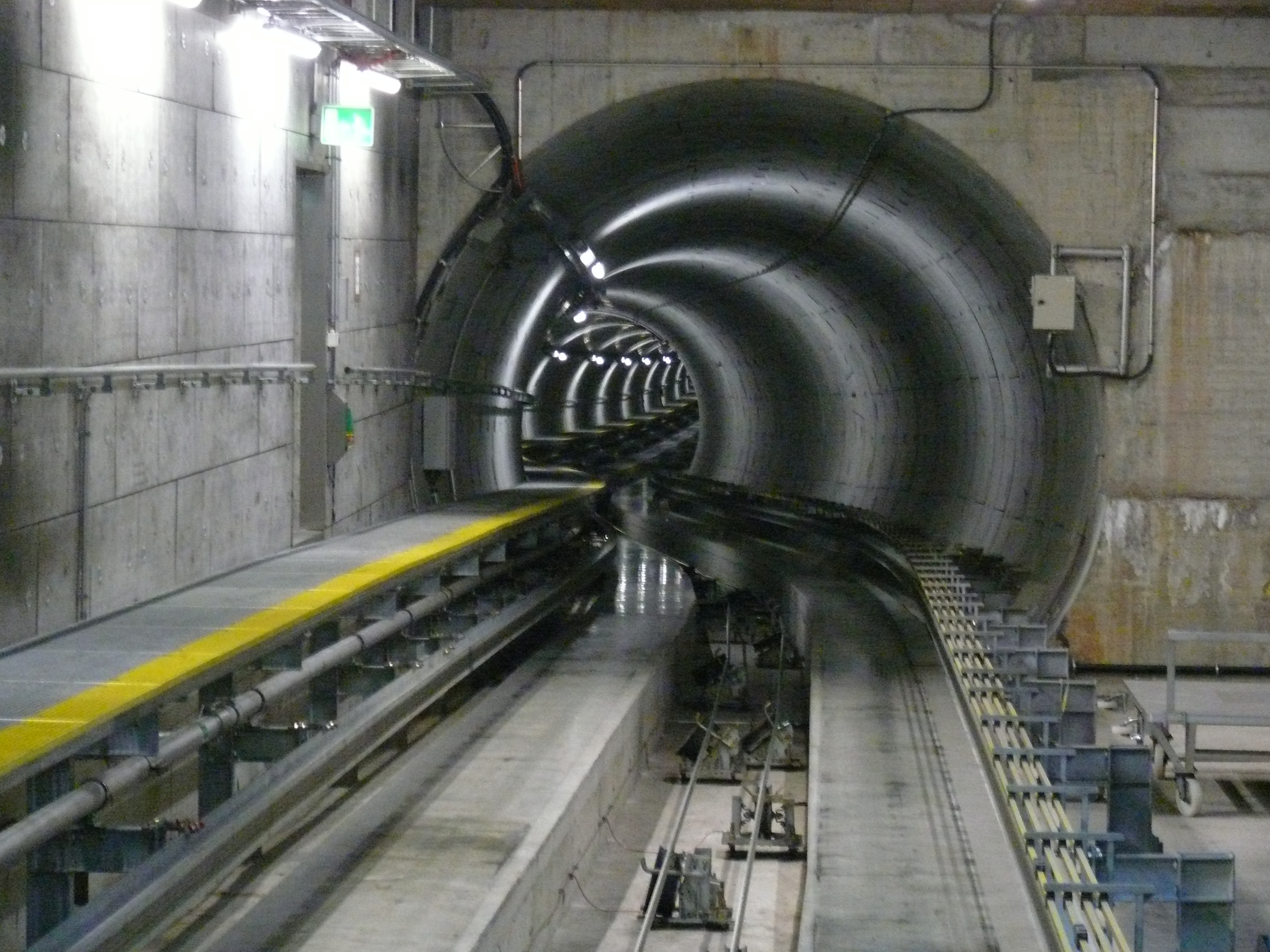 Railway and tunnel of the Skymetro, the airport people mover at Zurich International Airport between terminals B and E.